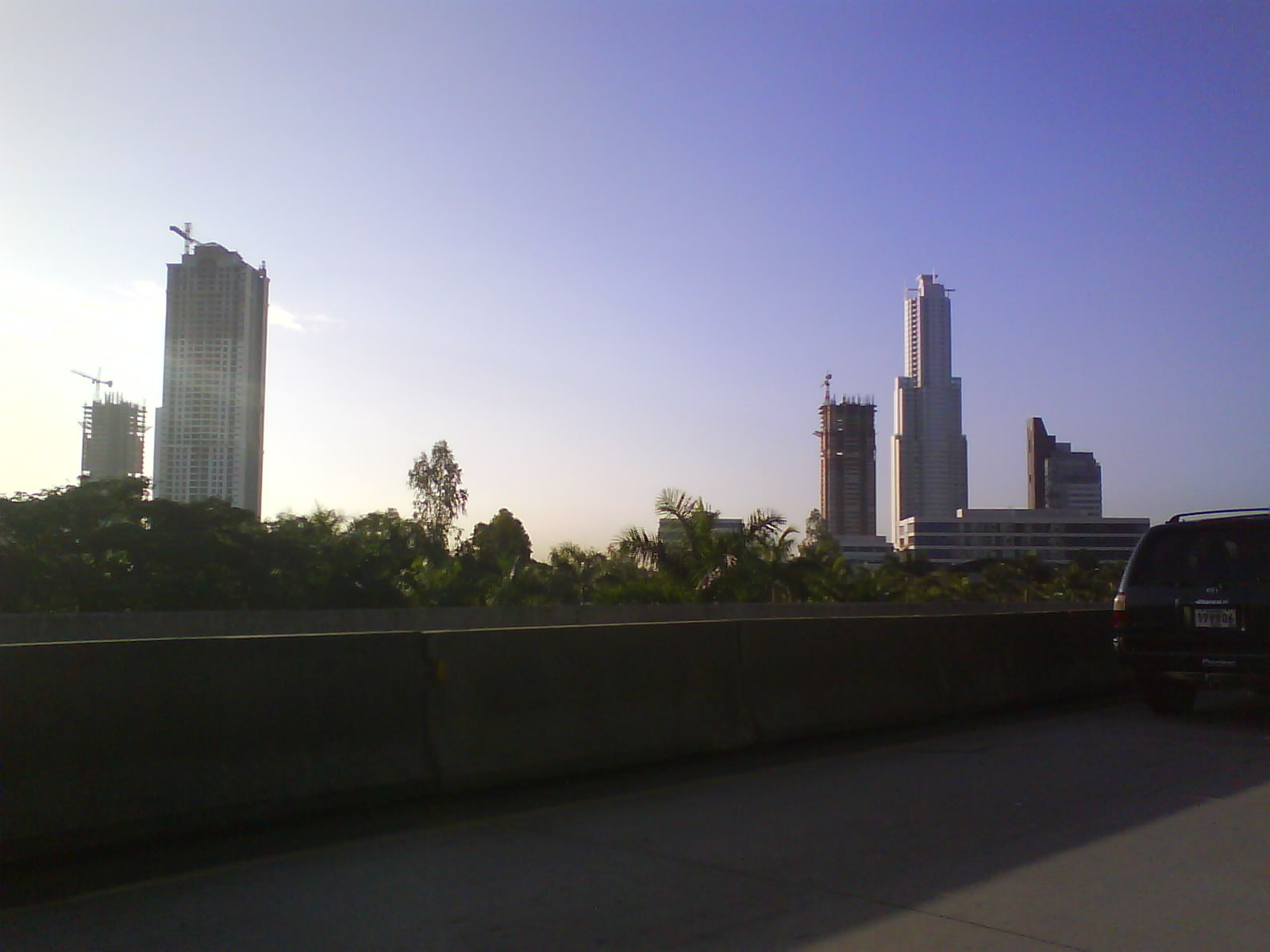 Costa del Este, Panama City, Panama